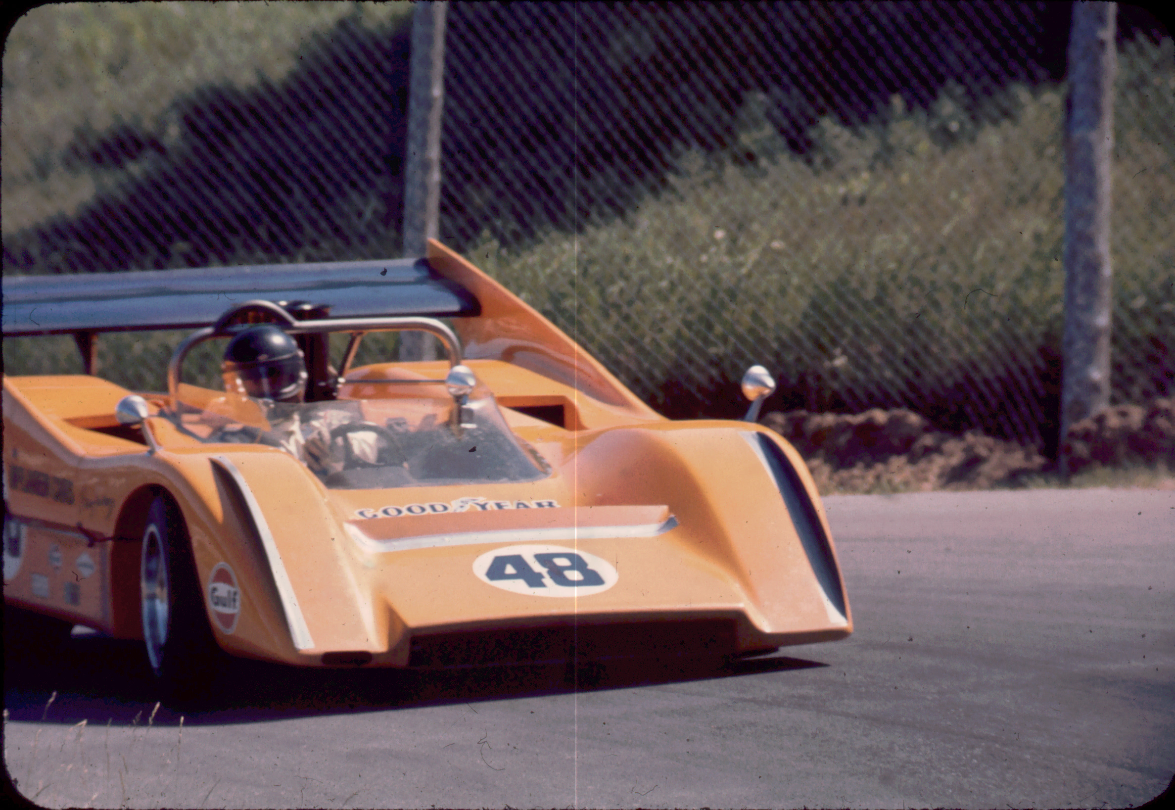 Dan Gurney heads towards victory at St. Jovite June 1970 in a McLaren M8D Chevrolet